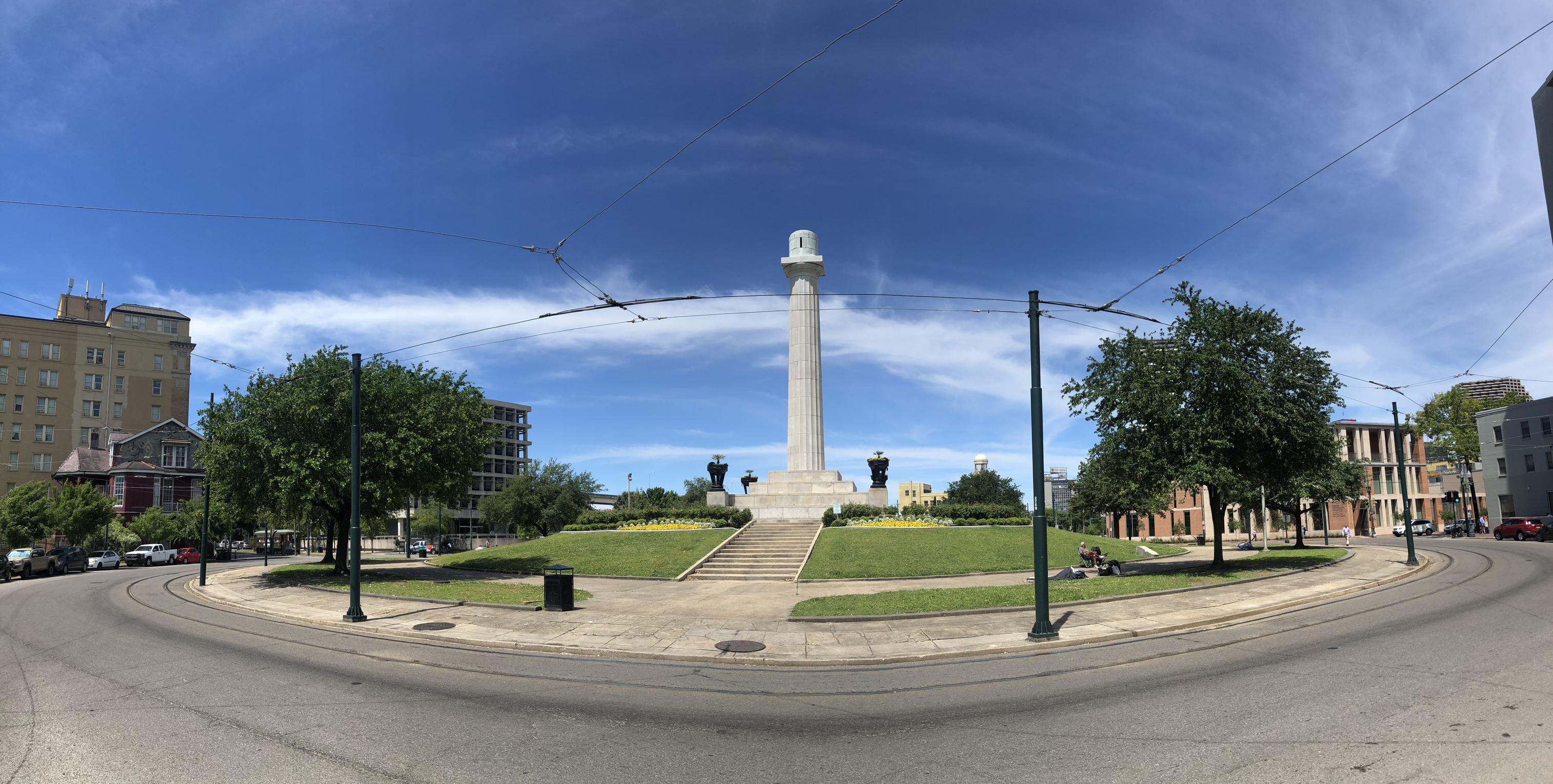 traffic circle with a monument to Confederate General, Robert E. Lee, in New Orleans, Louisiana